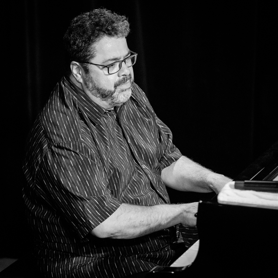 Arturo O’Farrill Quintet at Victoria Teater. The concert was part of Oslo Jazzfestival and took place on 14. August 2018 in Oslo. Lineup:Arturo O’Farrill (piano)Adam O’Farrill (trumpet)Zachary O’Farrill (drums)Boris Koslov (double bass)Chad Lefkowitz Brown (saxophone)